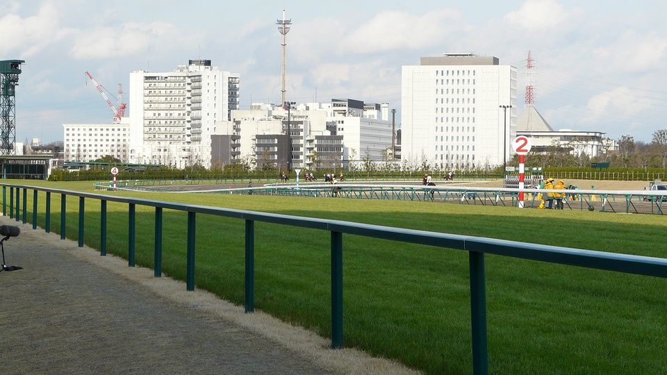 Chukyo_Racetrack_18